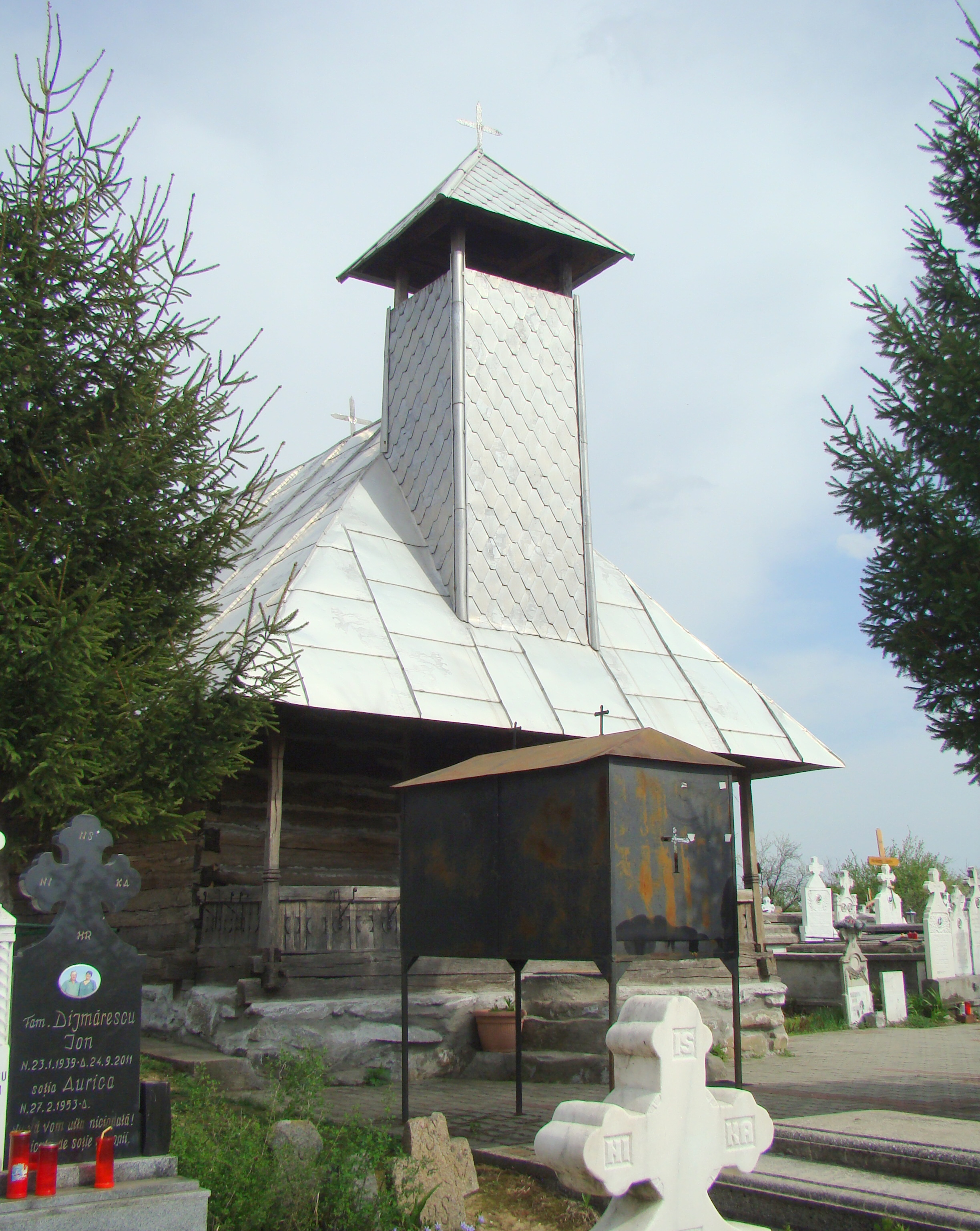 Saint George's church in Rugi, Gorj county, Romania